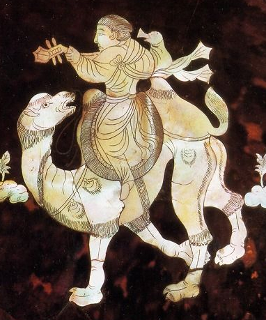 Decoration on the Tang Dynasty Pipa in Japan, which was a gift from the Emperor of China to the Japanese Emperor. Depicts Bactrian camel with pipa player on its back.